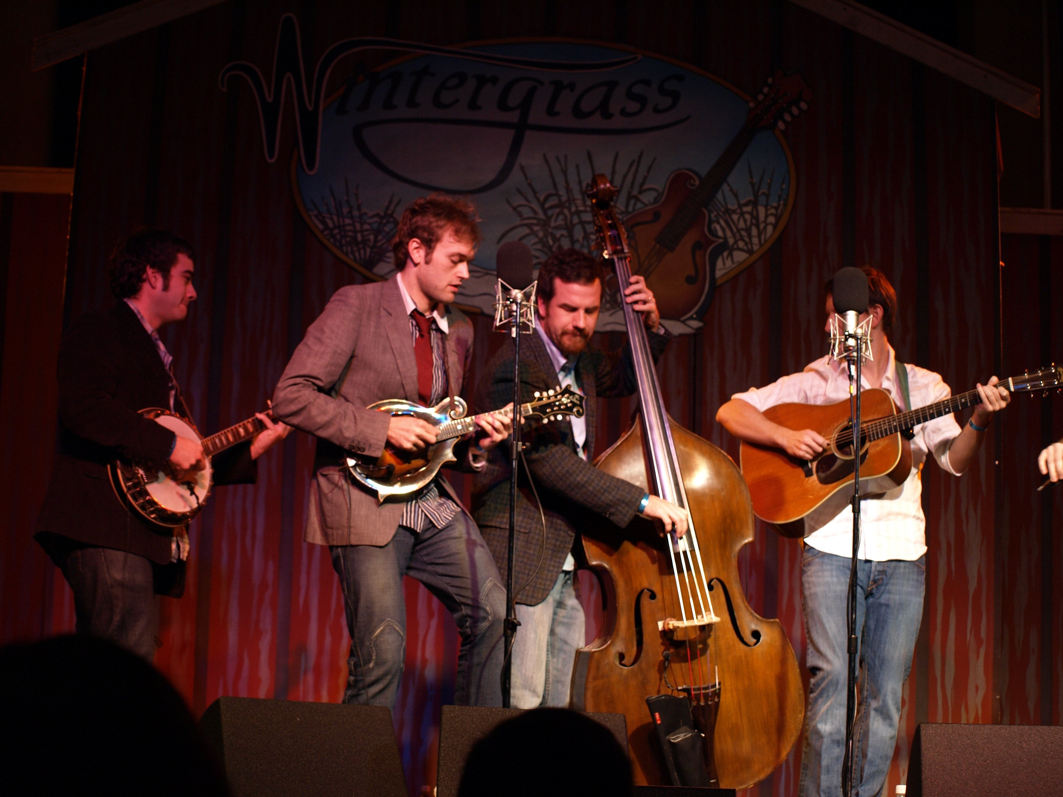 Chris Thile and Punch Brothers at Wintergrass, Bellevue, Washington, March 11, 2008